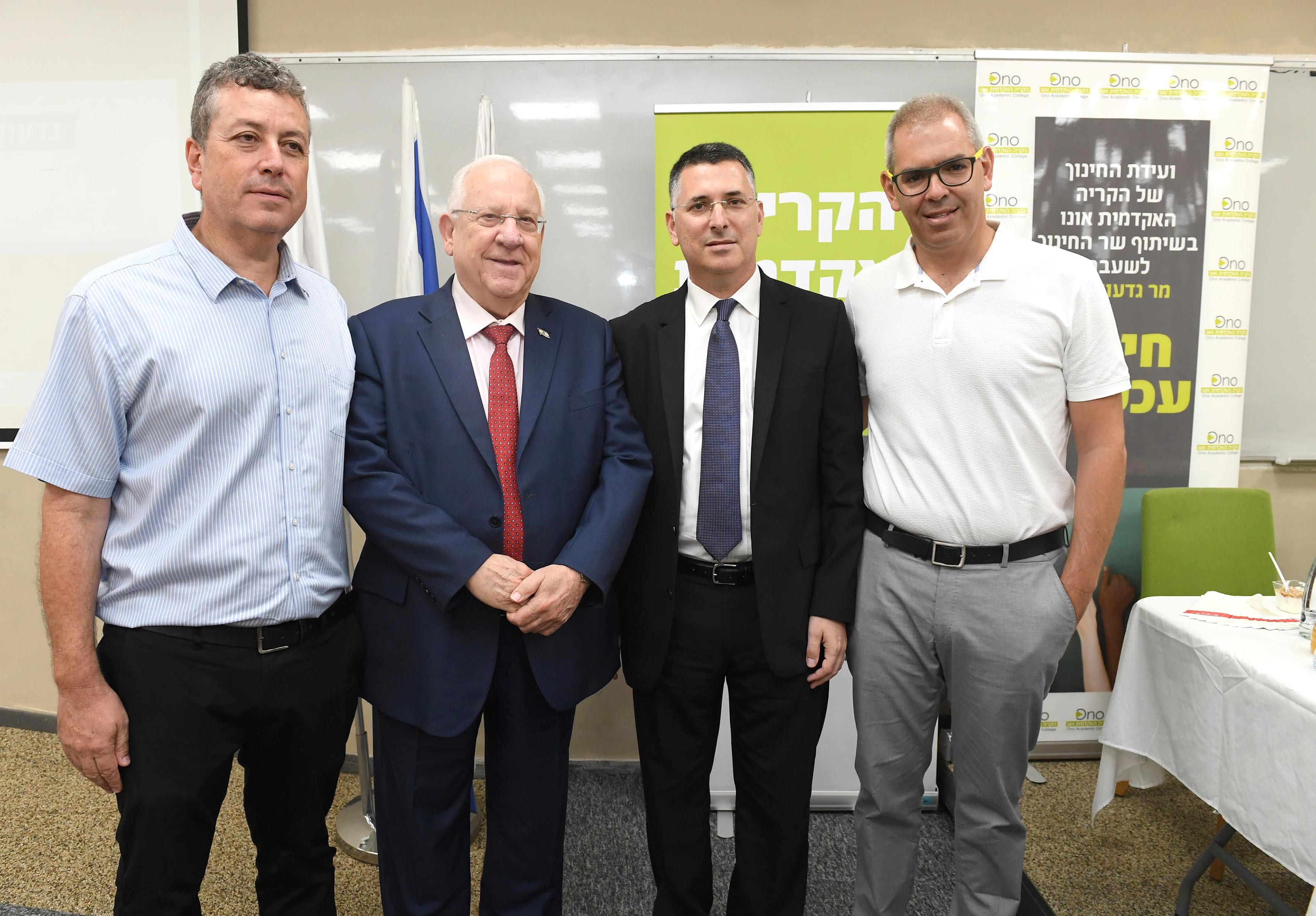 President Reuven Rivlin at the Education Now conference. Tuesday, August 22, 2017. Photo Credit: Mark Neyman / GPO.